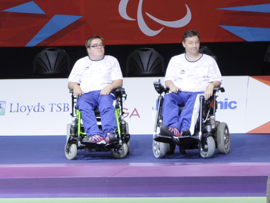 London 2012 Paralympics - Silver BC4 pairs - Radek Procházka and Leoš Lacina.